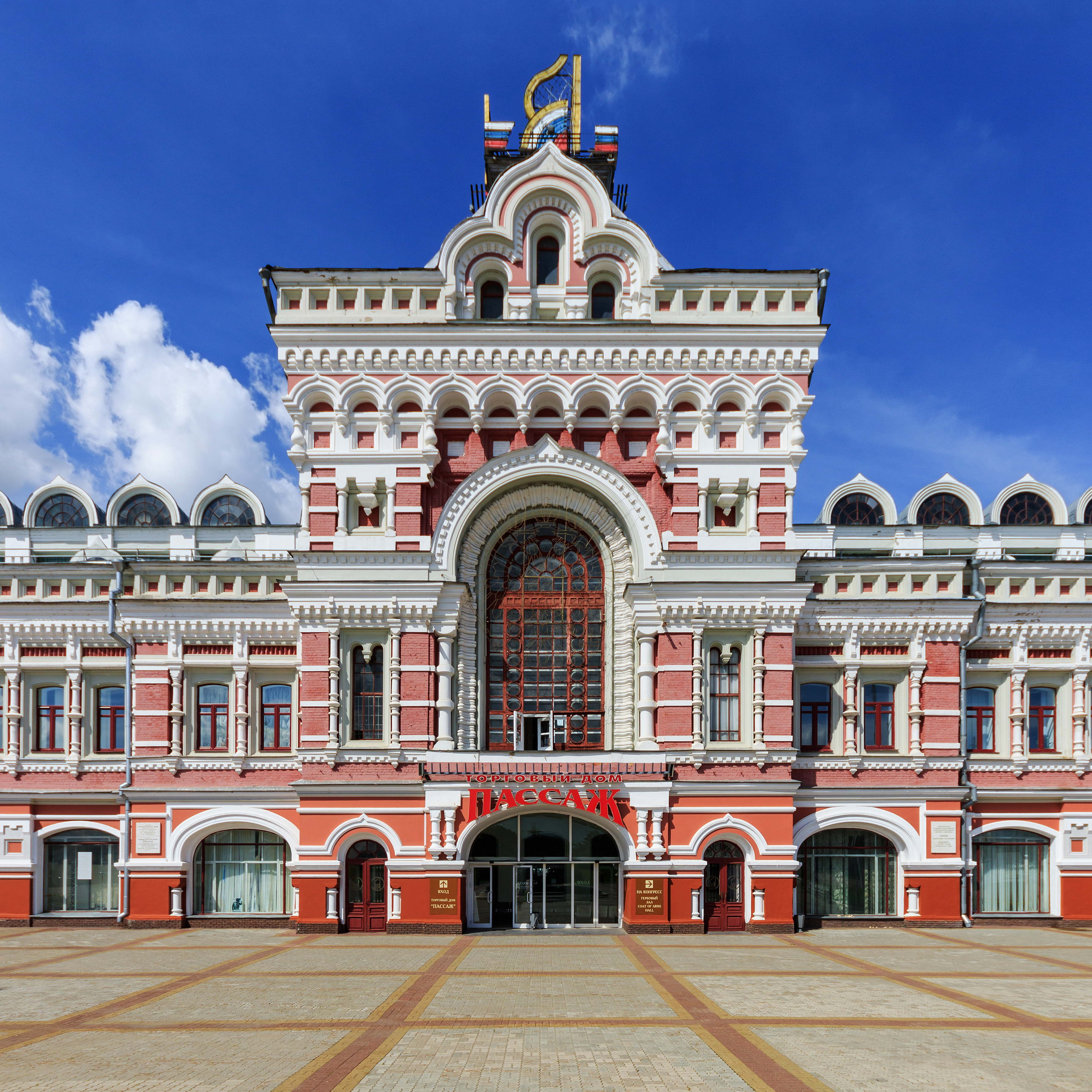 Main building of the Trade Fair in Nizhny Novgorod, Russia